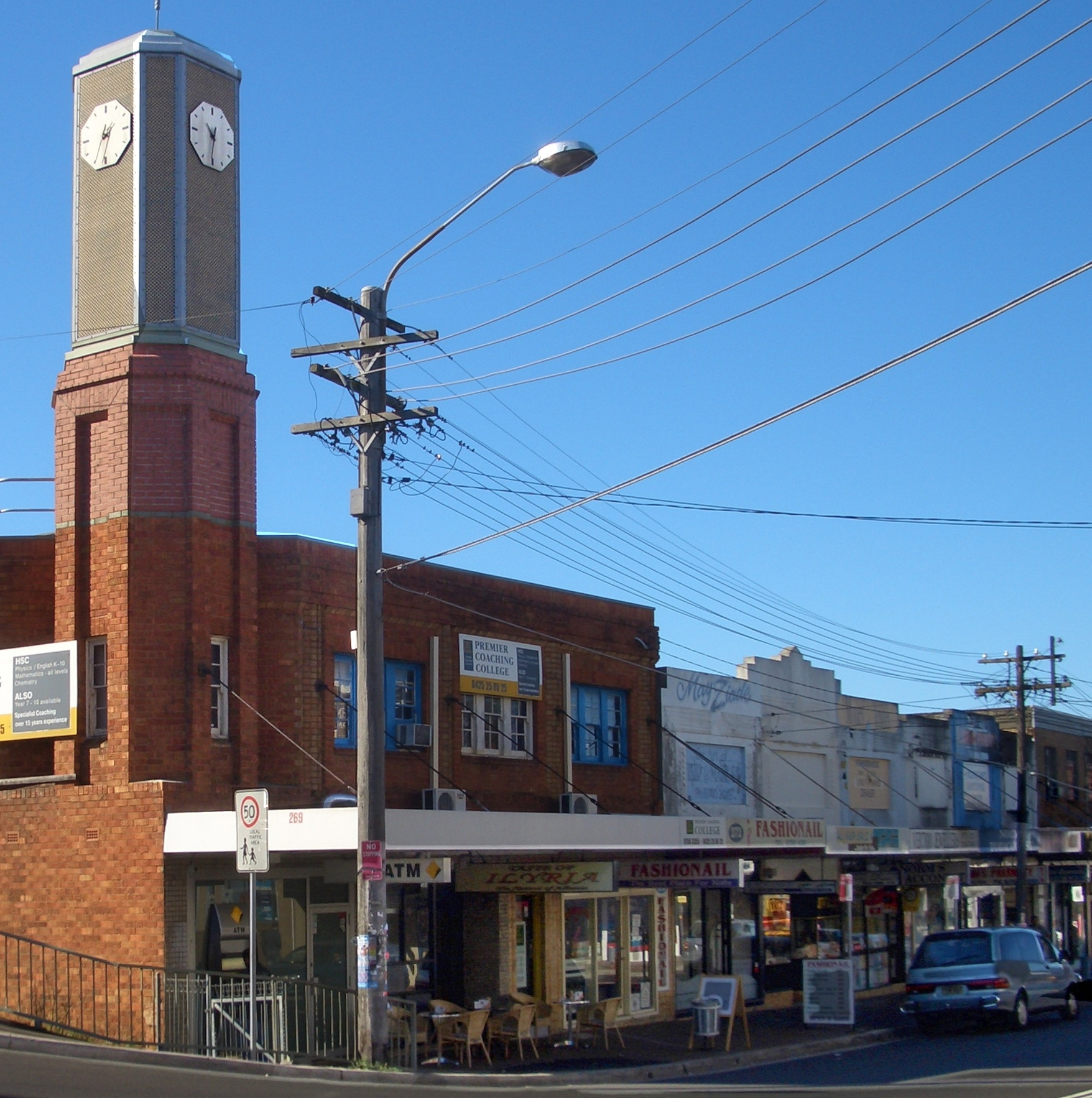 Punchbowl_Clock_Tower, The Boulevarde